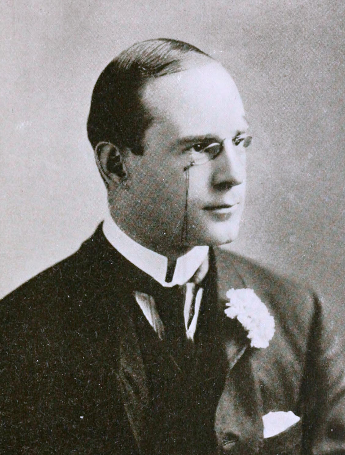 Title: Players and plays of the last quarter century; an historical summary of causes and a critical review of conditions as existing in the American theatre at the close of the nineteenth century Year: 1903 (1900s) Authors: Strang, Lewis Clinton, 1869-1935 Subjects: Theater -- History Theater -- United States Acting and actors Publisher: Boston, L.C. Page Text Appearing After Image: RICHARD MANSFIELD